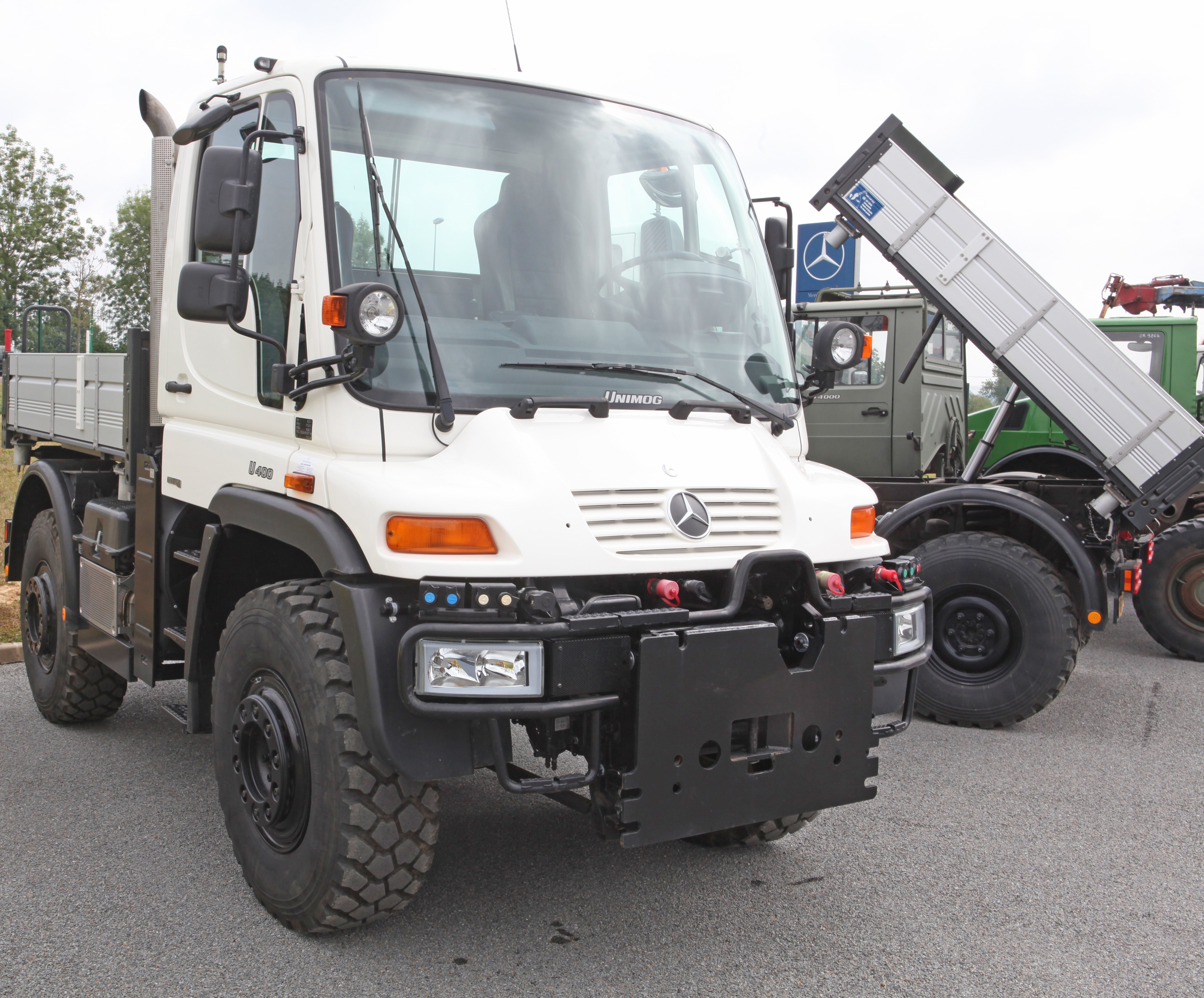 White Unimog 405 UGN U400 dump truck at SAS Lemonnier in France.